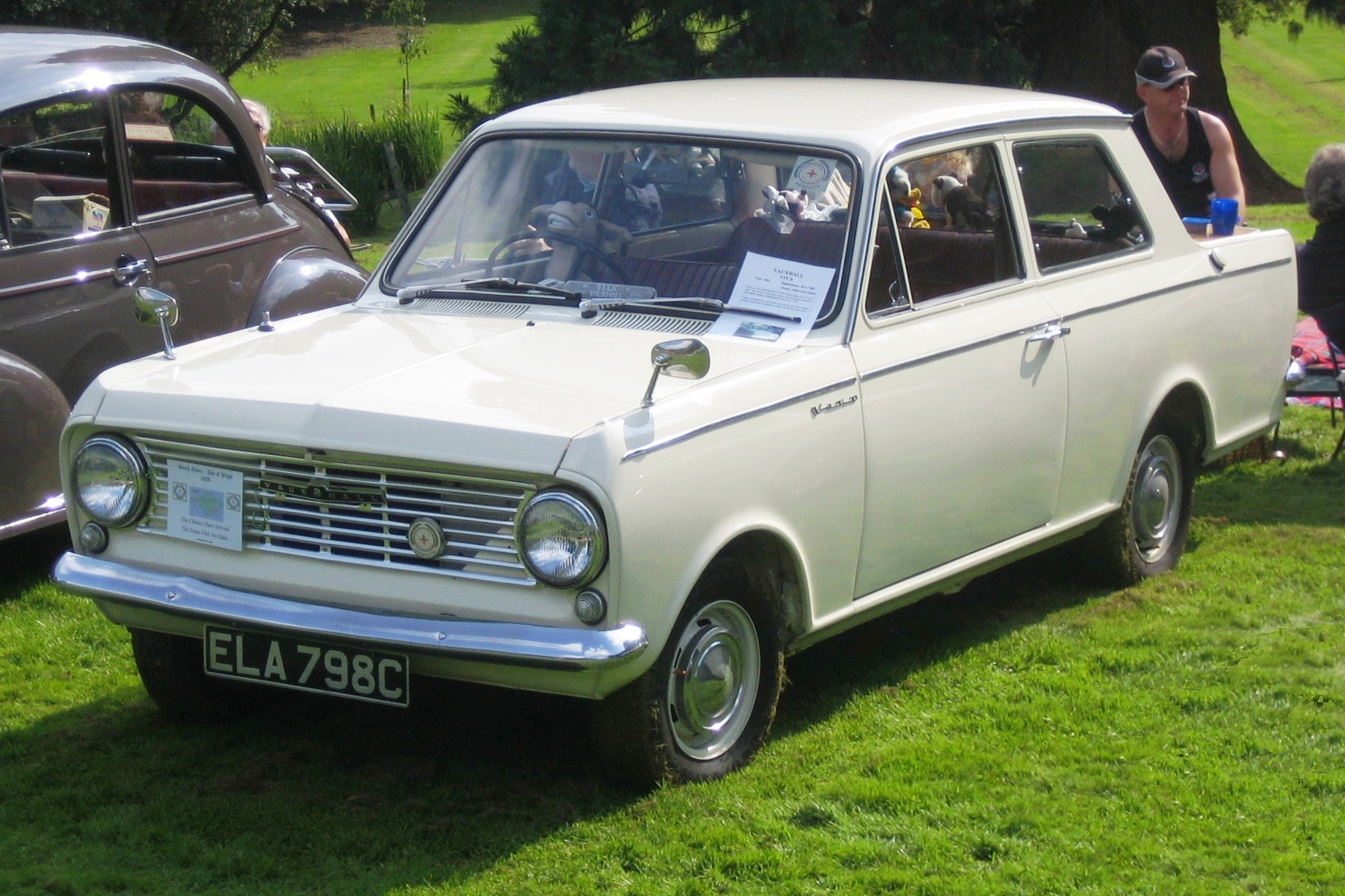 Vauxhall Viva HA in north Essex, the simple grill identifies this as a 'base' or 'de luxe' version. The more expensive Viva SL 90 features a more elaborate grill